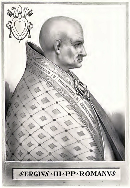 This illustration is from The Lives and Times of the Popes by Chevalier Artaud de Montor, New York: The Catholic Publication Society of America, 1911. It was originally published in 1842.